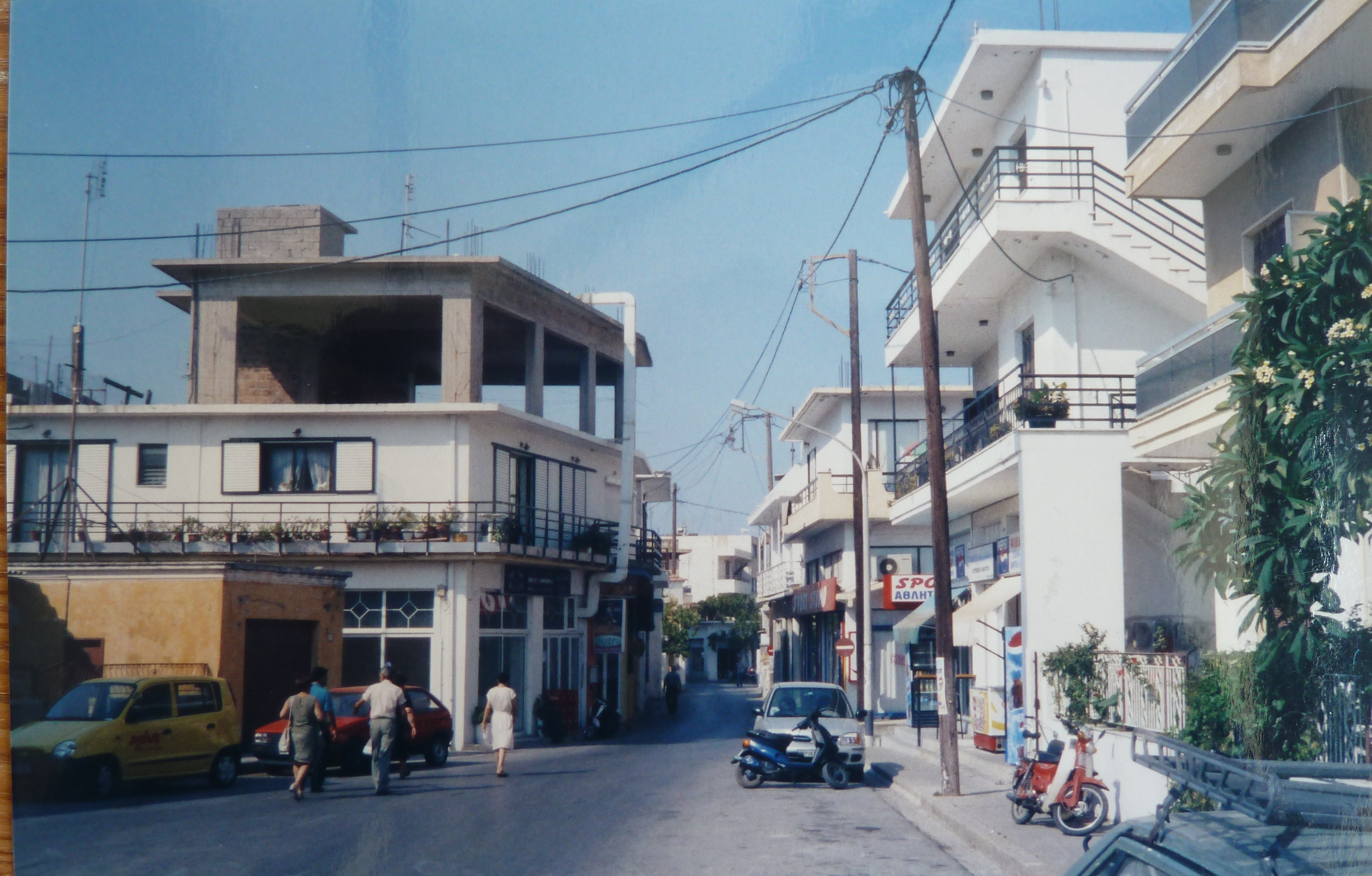 Ialyssos, Rhodes, Greece 2008